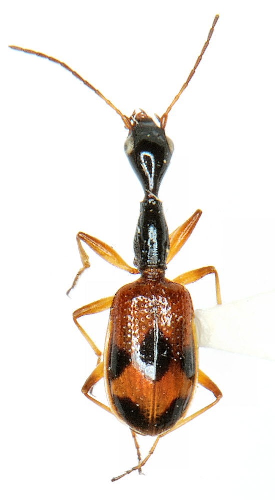 Specimen of a carabid beetle, Colliuris pensylvanica (Linnaeus), collected in USA: Connecticut: West Haven, 7-May-1985, collector M.K. Oliver, in collection of same.